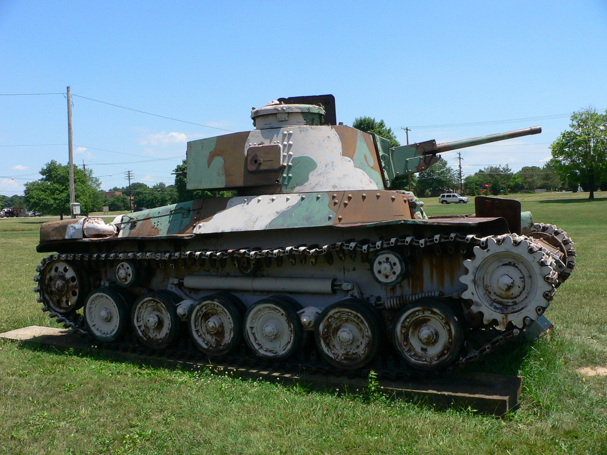 Picture taken by myself, Mark Pellegrini, at the United States Army Ordnance Museum (Aberdeen Proving Ground, MD) on June 12, 2007.